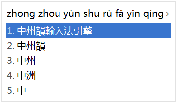 Screenshot of Rime Input Method Engine